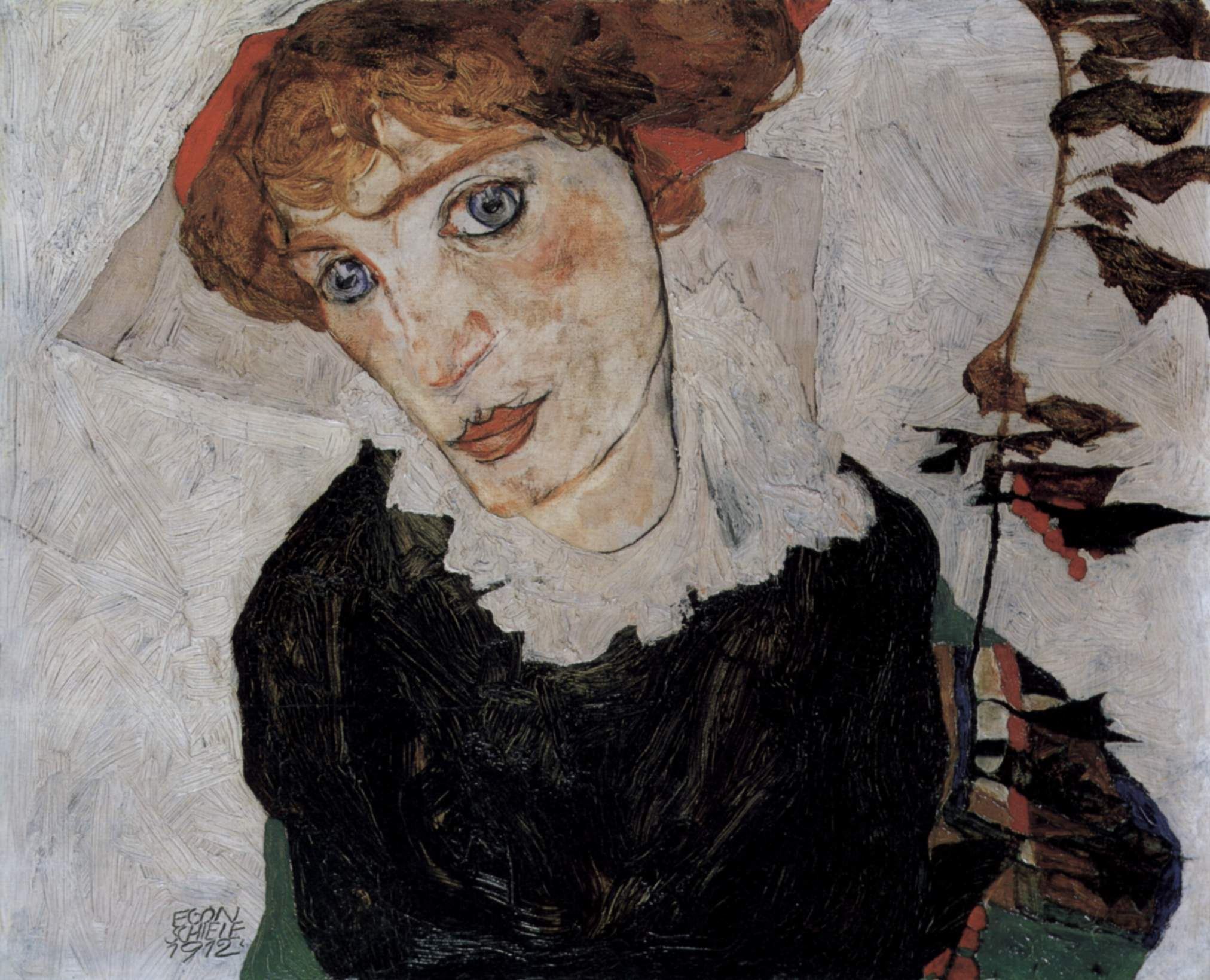 Portrait of Walburga "Wally" Neuzil (1894-1917)